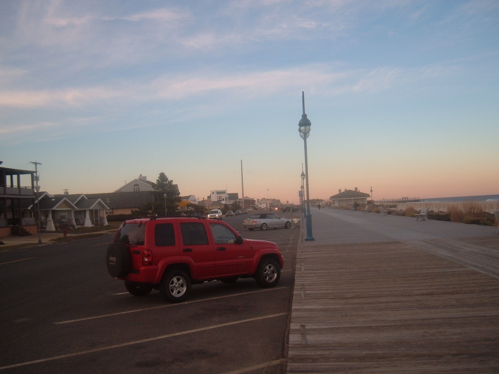 Belmar, New Jersey